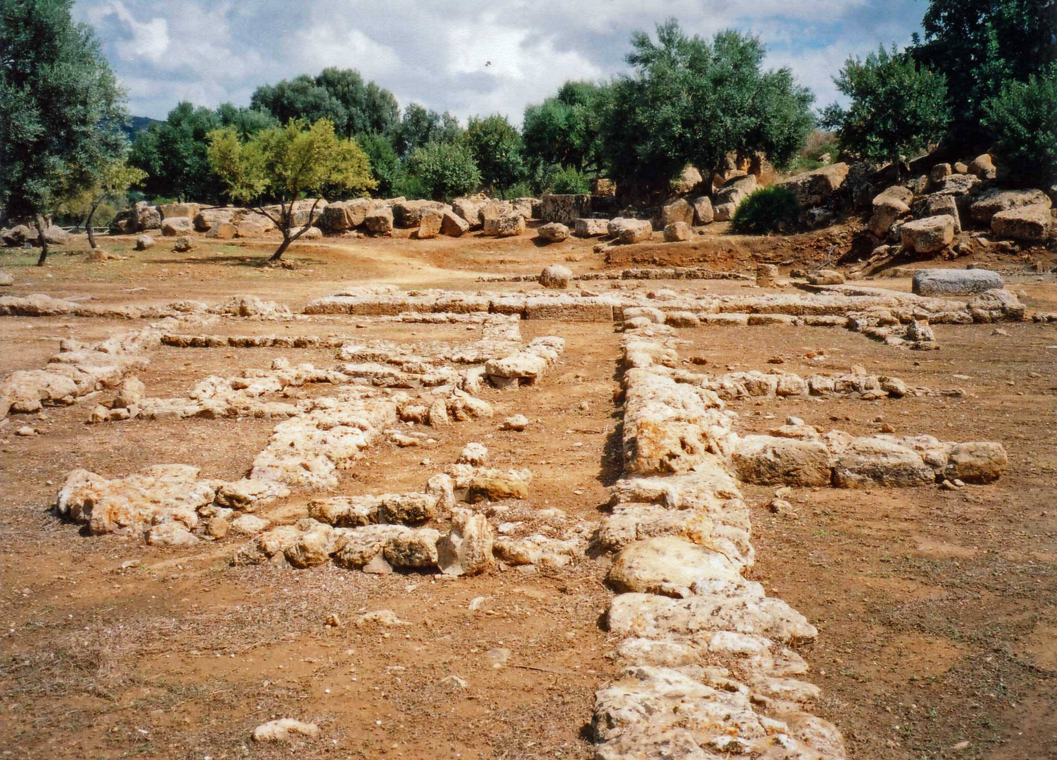 Remains of houses in Agrigento.Agrigento, domestic quarter